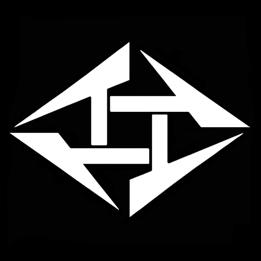 I-bishi mon, depicting four Japanese katakana "イ" arranged in a diamond shape